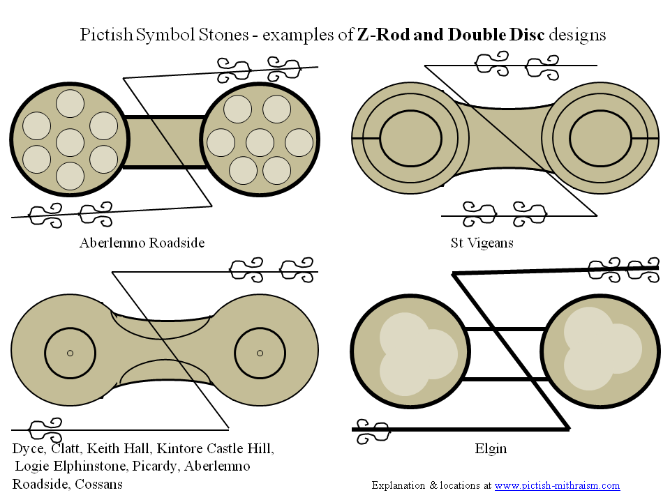 Around 56 examples of the so-called Z-Rod & Double Disc design can be seen on Pictish Standing Stones (around 1200 to 1500 years old) in situ in NE Scotland or in (mainly) Scottish museums; making it one of the most numerous. Although described as a "Z", this shape is, in fact, the reverse of a Z. The general pattern is this reversed Z overlaying two interconnected circles. Many of the circles (or discs) have additional concentric circles and the arms of the "Z" have variants of flame type patterns or finials.